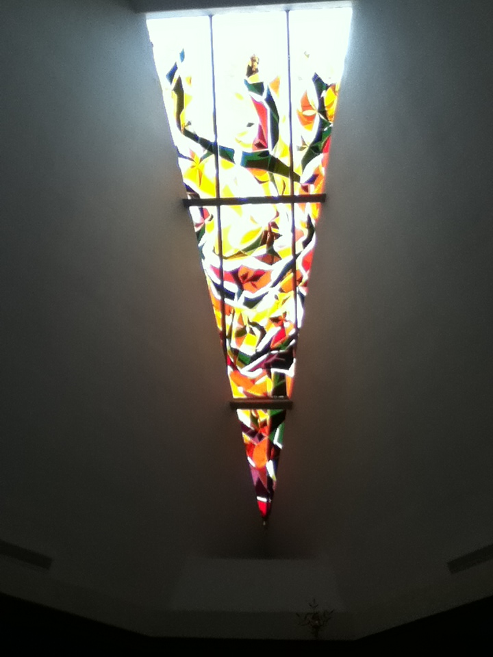 Stain glass windows in Rodef Sholom sanctuary